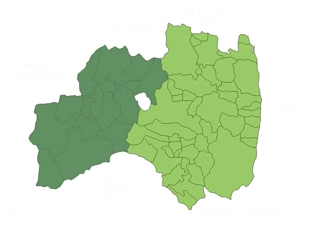 Map showing the Aizu region of Fukushima Prefecture, Japan